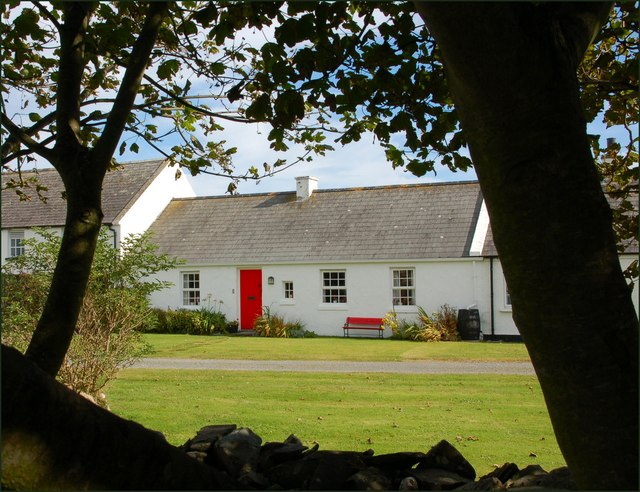 Kearney near Portaferry (6). See 562926. This cottage is part of a row overlooking a communal green.